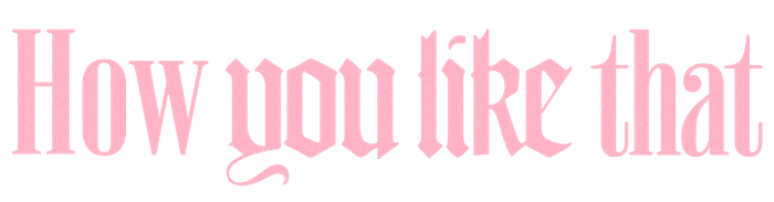 Logo of “How You Like That”, 2020 single by Blackpink